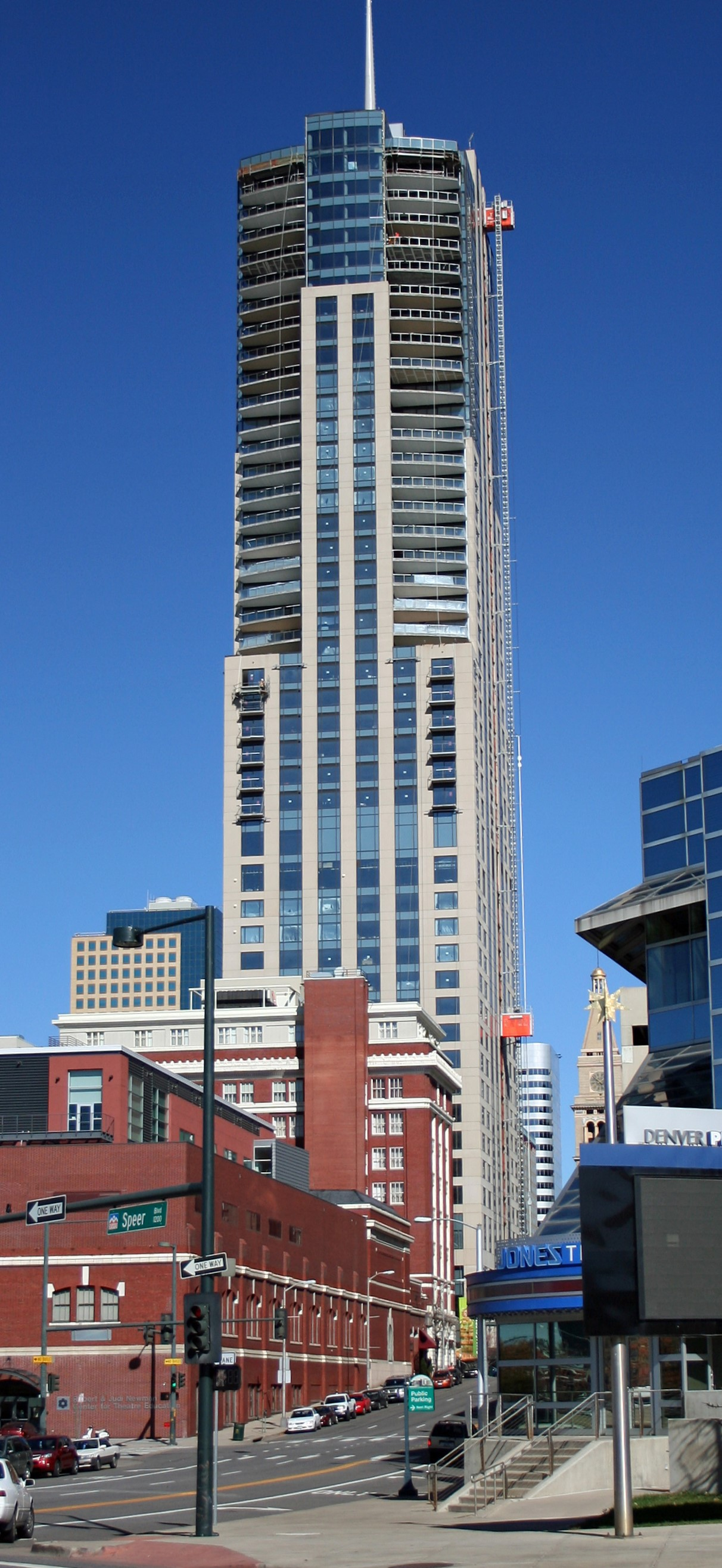 The Four Seasons Hotel and Private Residence Denver building, located in Denver, Colorado.